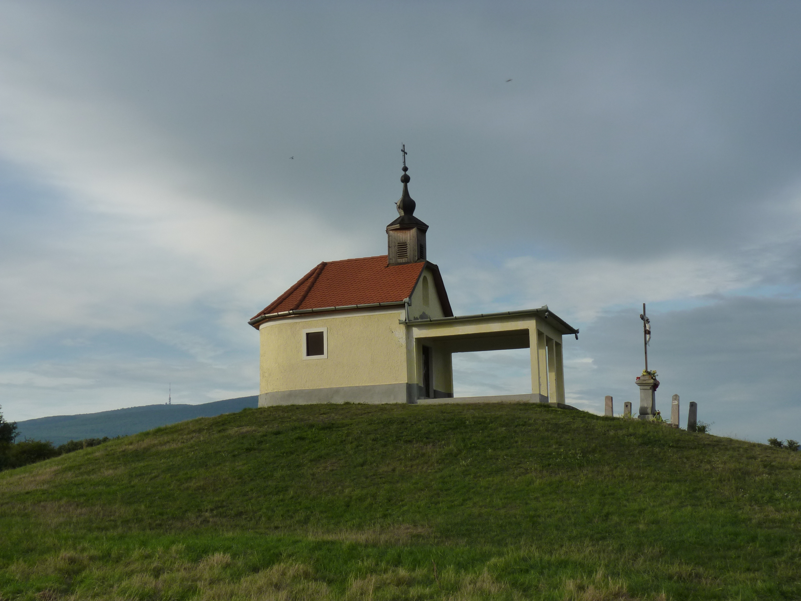 Saint Anne chapel above Abasár